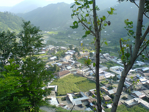 A view of Lilonai Alpurai